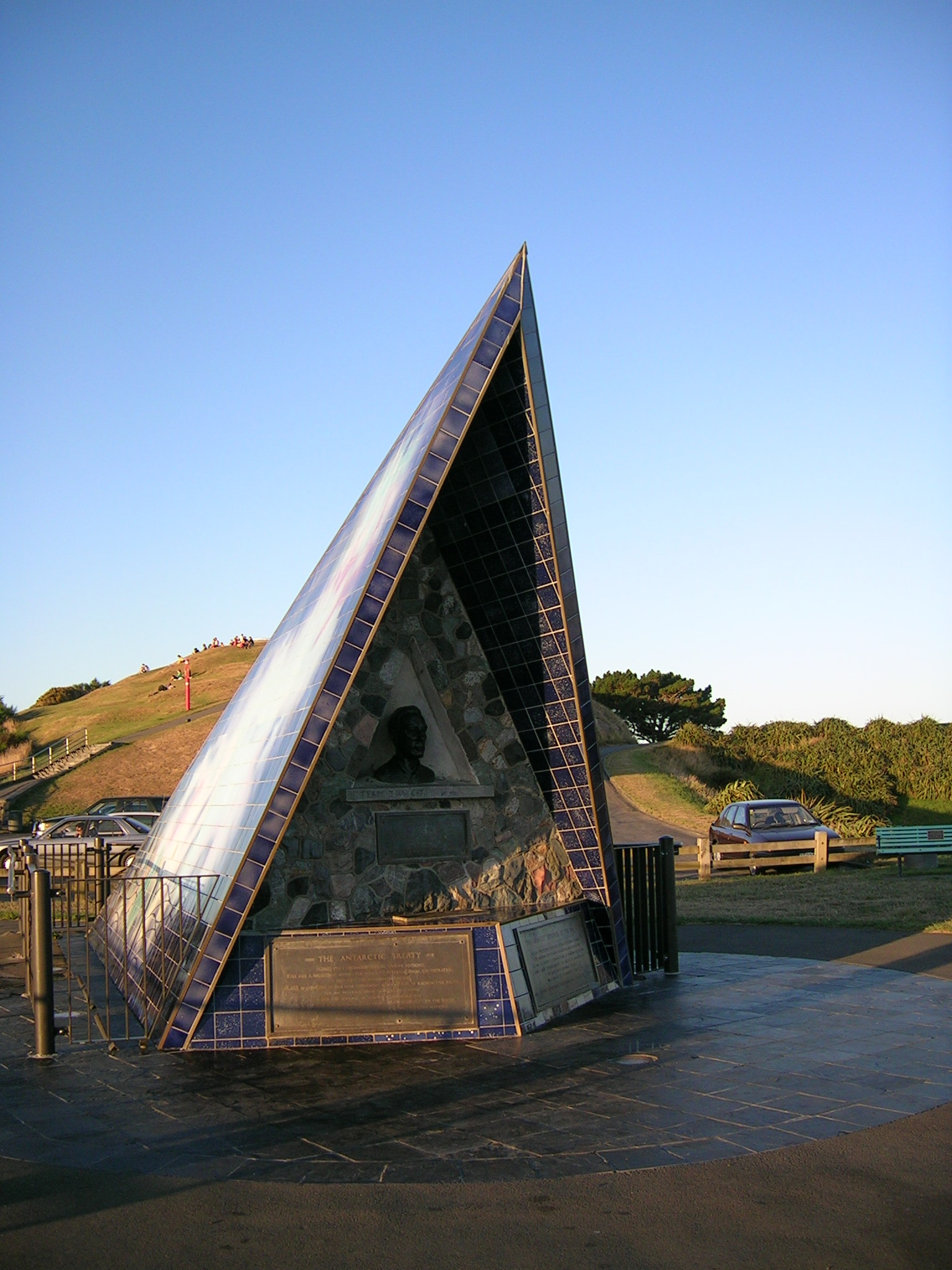 The side that points to the South PoleThe stones that make up the internal wall are from Antarctica.Byrd Memorial